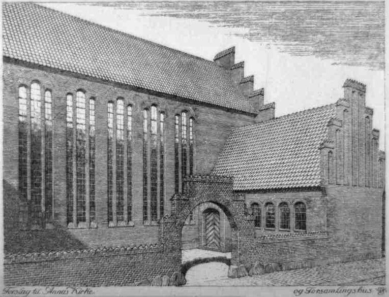 Early draft by Peder Vilhelm Jensen-Klint for the Anna Church in the Nørrebro district of Copenhagen, Denmark. It differs from the final design of the church - "Tidlig udskast; bemærk den enkle landsbykirke-stensætning, de 3-fagede vinduer og manglende førstesal på menighedshus. Det enkelte klokketårn er på tagryggens modsatte gavl."